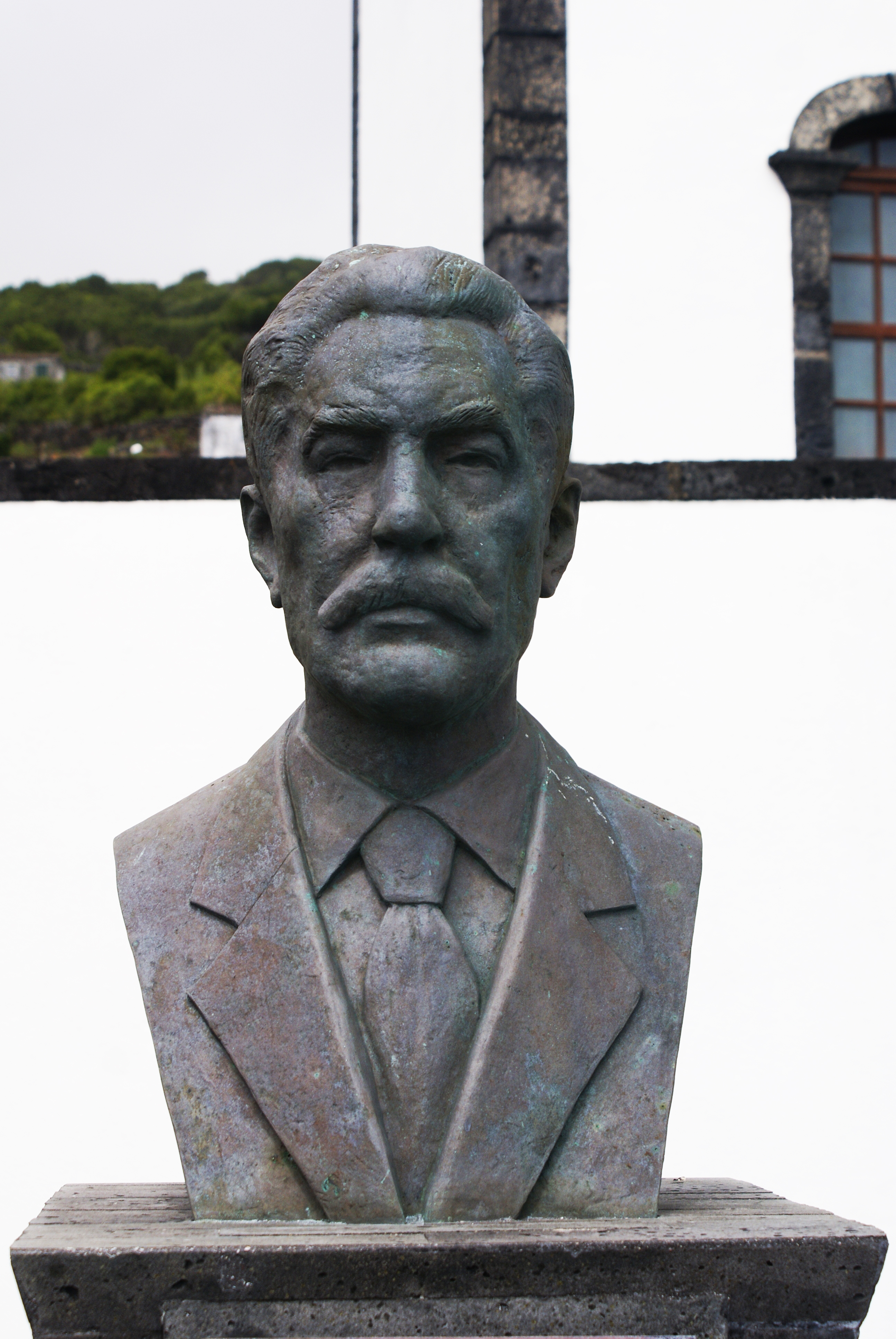 Capitão Anselmo da Silveira da Silva, calheta de Nesquim, Lages do Pico, ilha do Pico, Açores, Portugal